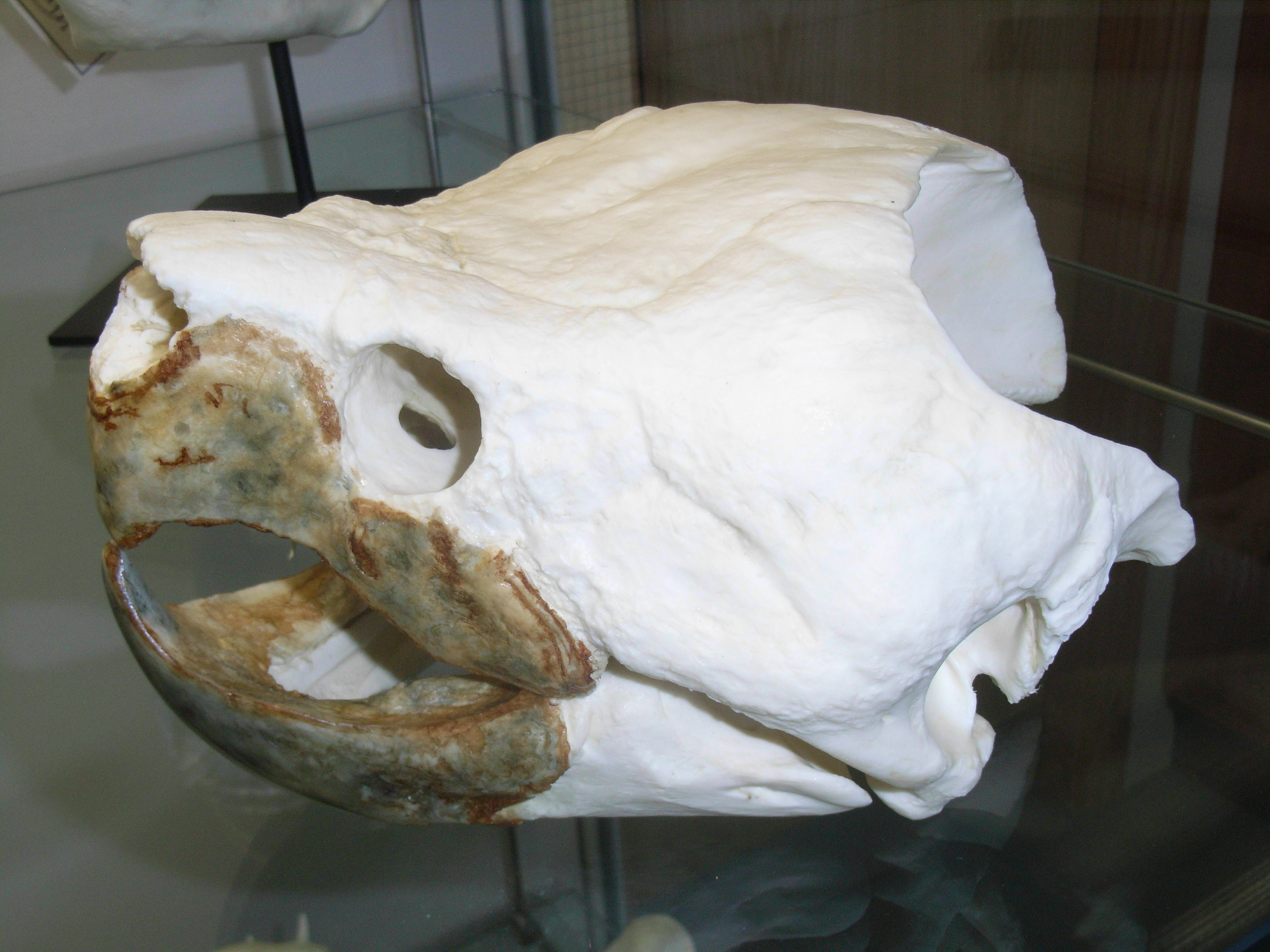 Macrochelys temmincki Replica Skull